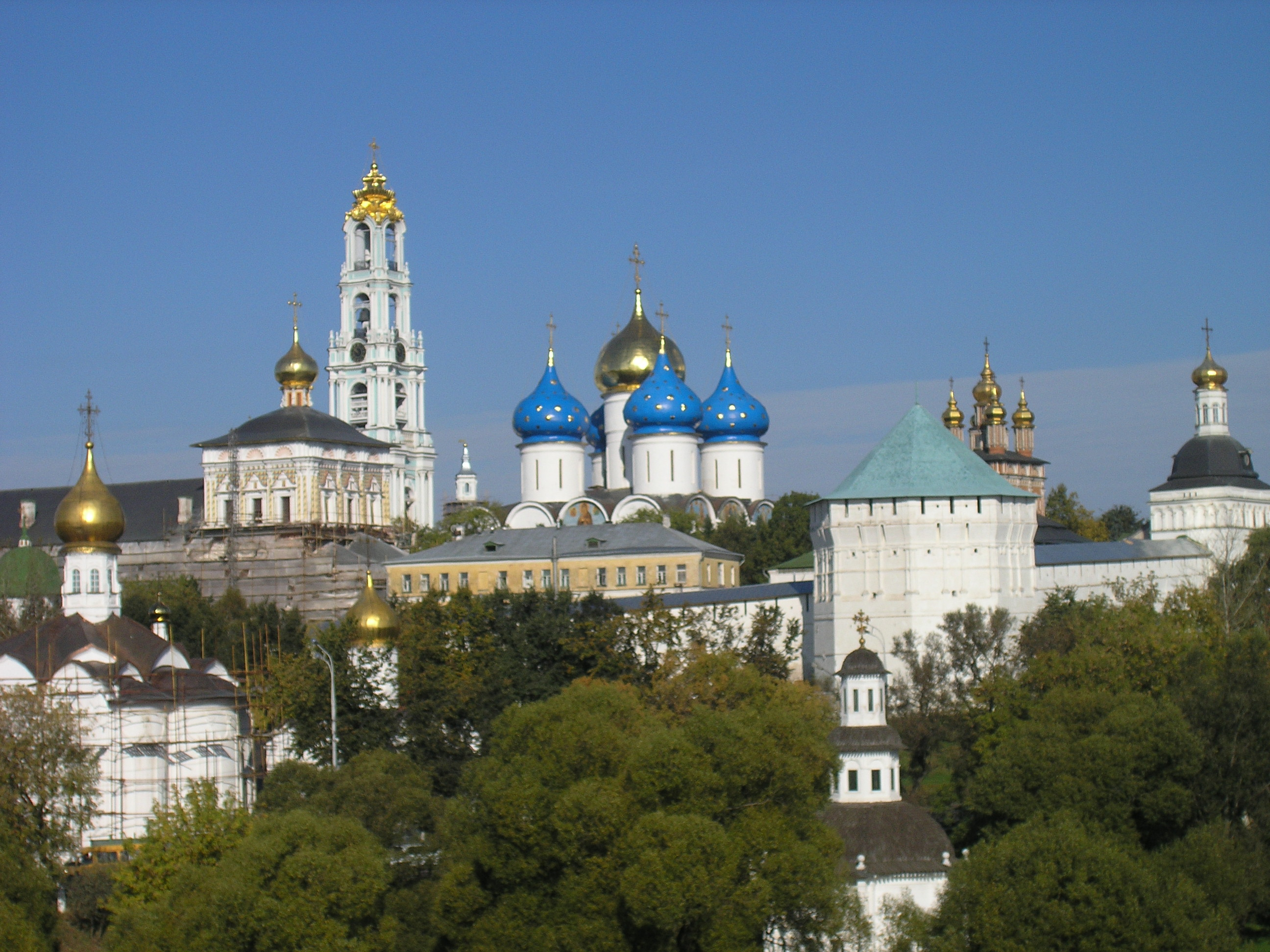 Troitse-Sergiyeva Lavra panorama. Sergiev Posad, Russia.